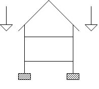 Diagram illustrating "dead load" or "static load".